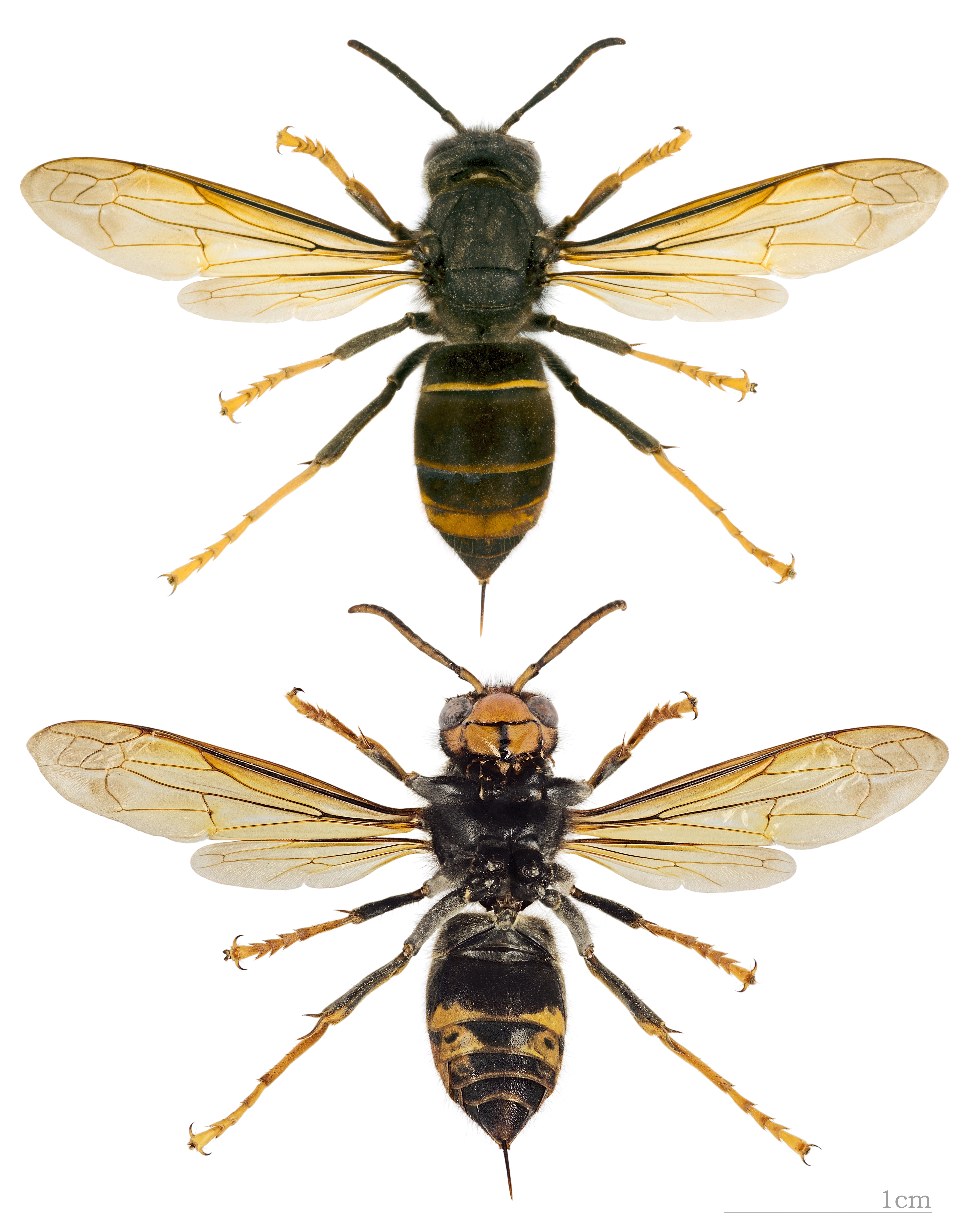 Vespa velutina nigrithorax - Two views of same specimen